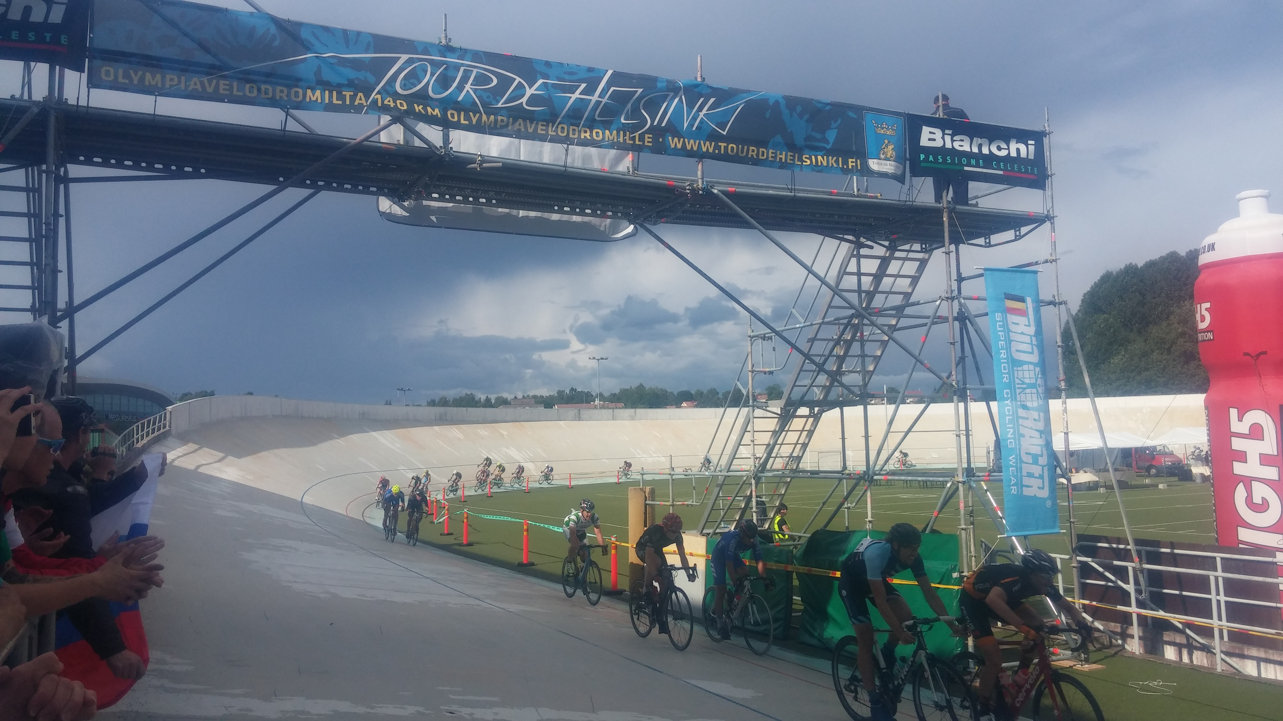 The Tour de Helsinki is an annual cyclosportive in Helsinki, Finland.